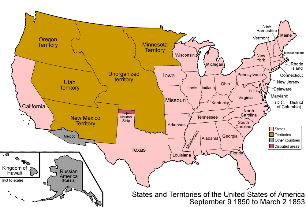 Map of the states and territories of the United States as it was from 1850 to March 1853. On September 9 1850, several western areas changed: The Mexican Cession was organized, being split in to Utah Territory and New Mexico Territory, and one portion was admitted as the state of California. These two territories also included a portion of Texas, ceded to the federal government. Finally, a small area known as the Neutral Strip as not officially included in any state or territory. A small portion of Texas and the Mexican Cession became unorganized land. On March 2 1853, Washington Territory was split from Oregon Territory.